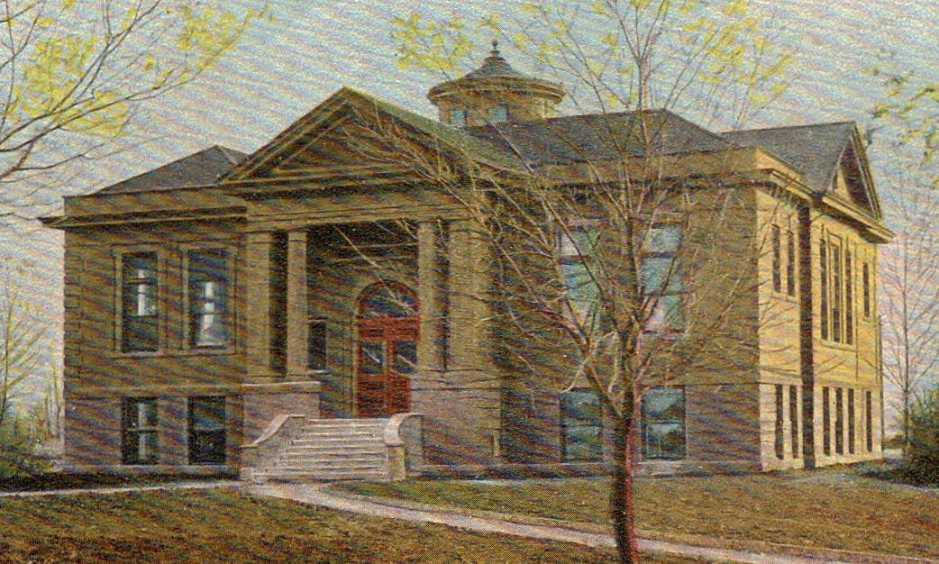 Image of the Fargo, North Dakota Carnegie Library